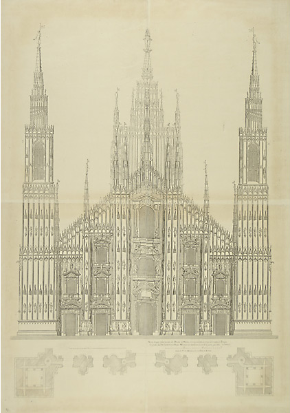 Project for completion of facade of Milan Cathedral